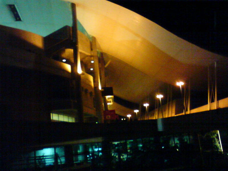 GSP by night 2008